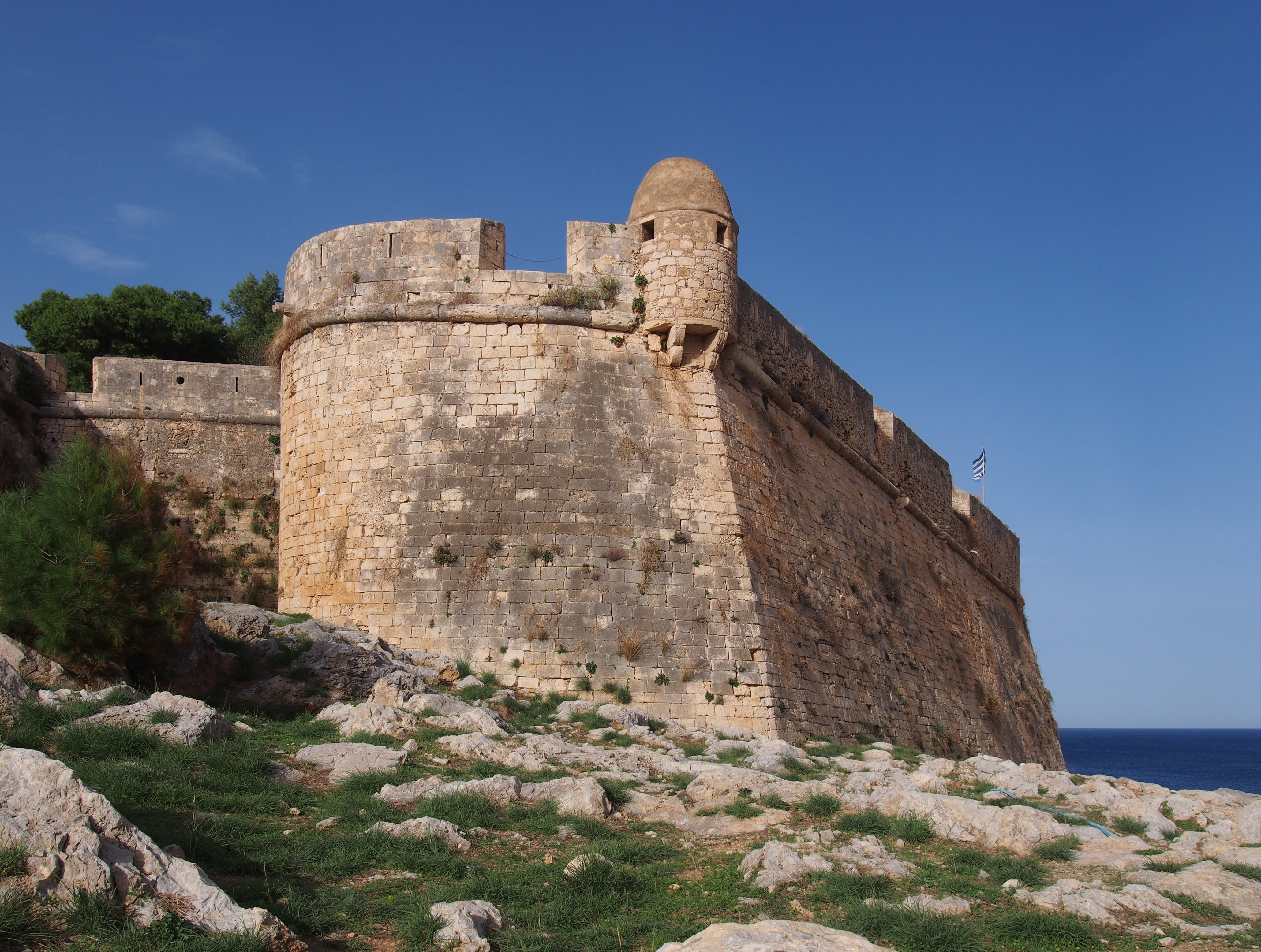 Bastion of the Fortezza fort, at Rethymno.